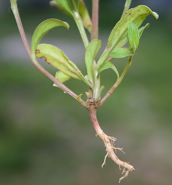 Allmania nodiflora in Keesara, Rangareddy district, Andhra Pradesh, India.